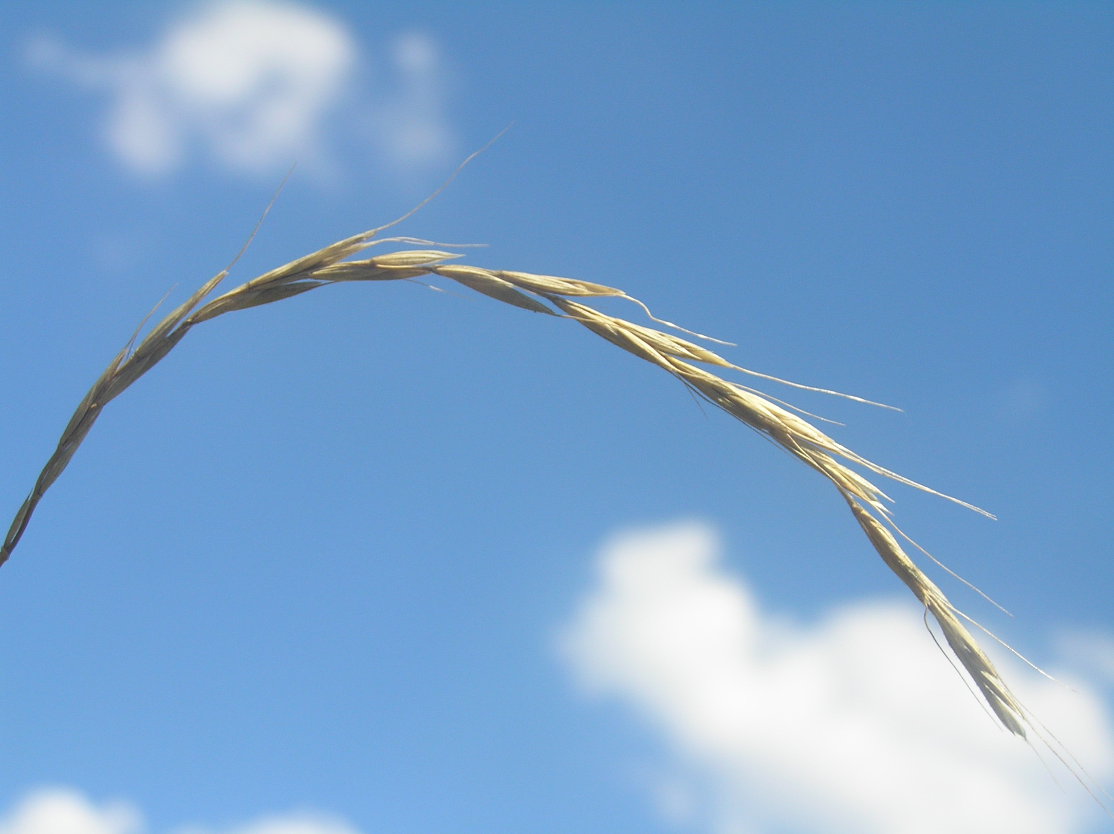 Elymus caninus, Choceň, Czech Republic